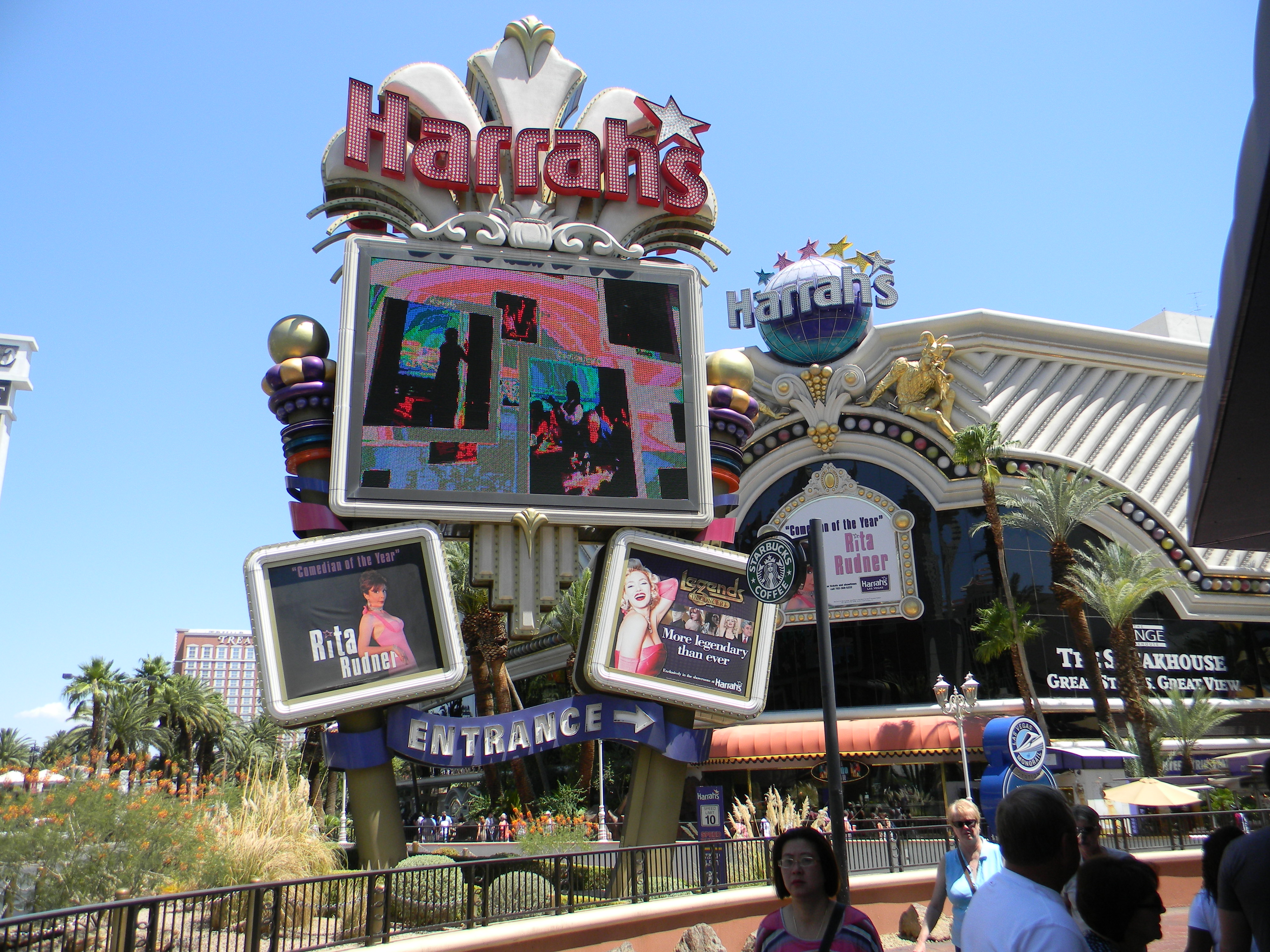 Harrah's Las Vegas